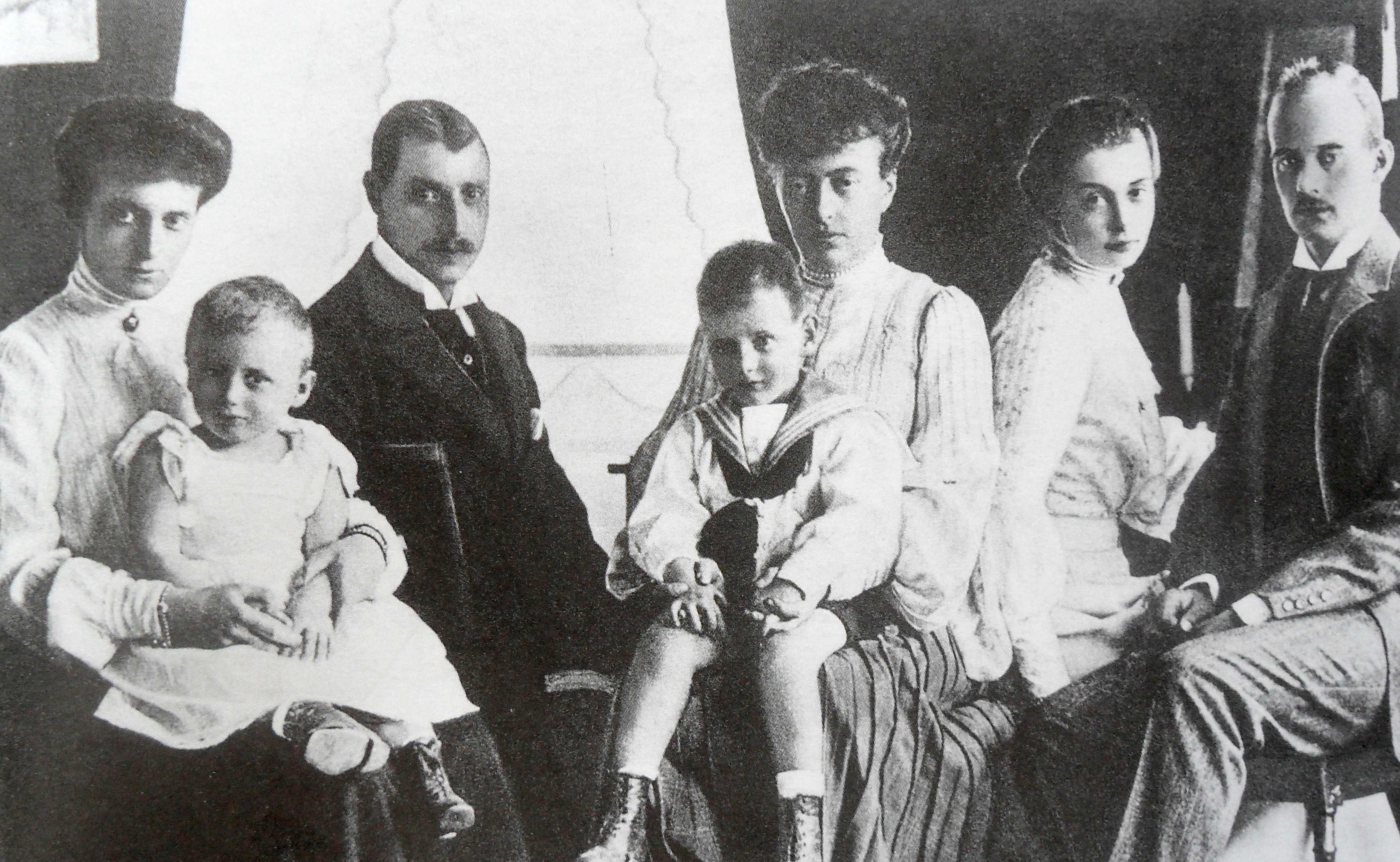 Grand Duchess Anastasia Mikahilovna of Russia with her three children and her son in law Christian X of Denmark